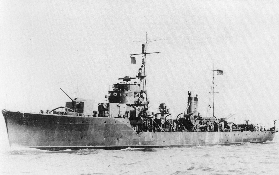 Japanese Mikura class escort vessel "Nomi".